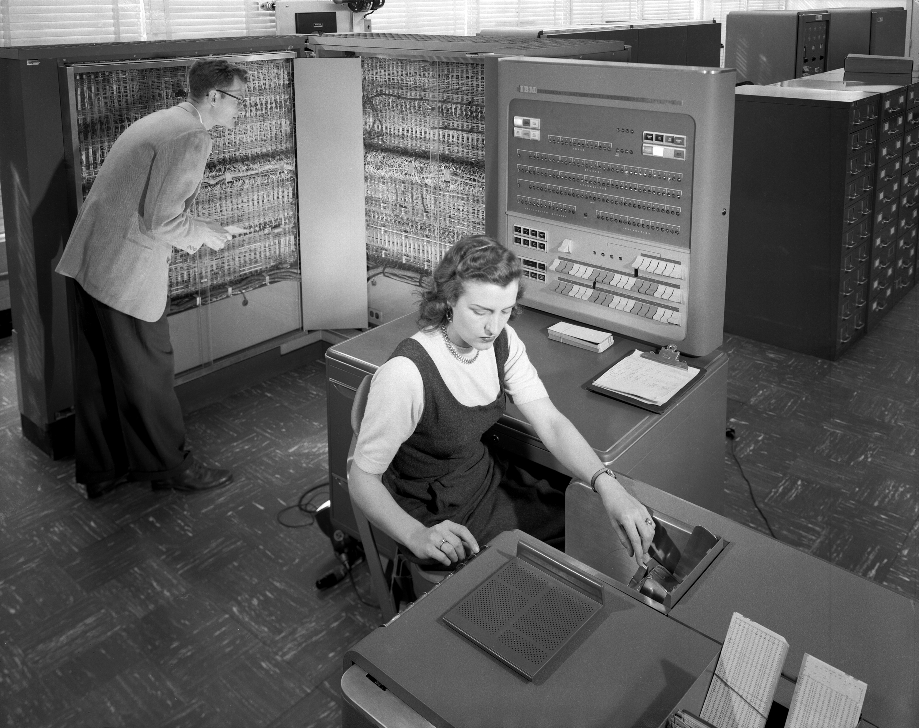 Man and woman working with IBM type 704 electronic data processing machine used for making computations for aeronautical research. Langley NACA